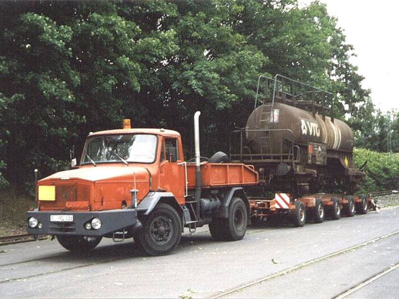 A special trailer used for the transport of railway cars on the road, also known as "Culemeyer Strassenroller", on Sep. 11, 2001 in Lingen (Ems), Germany